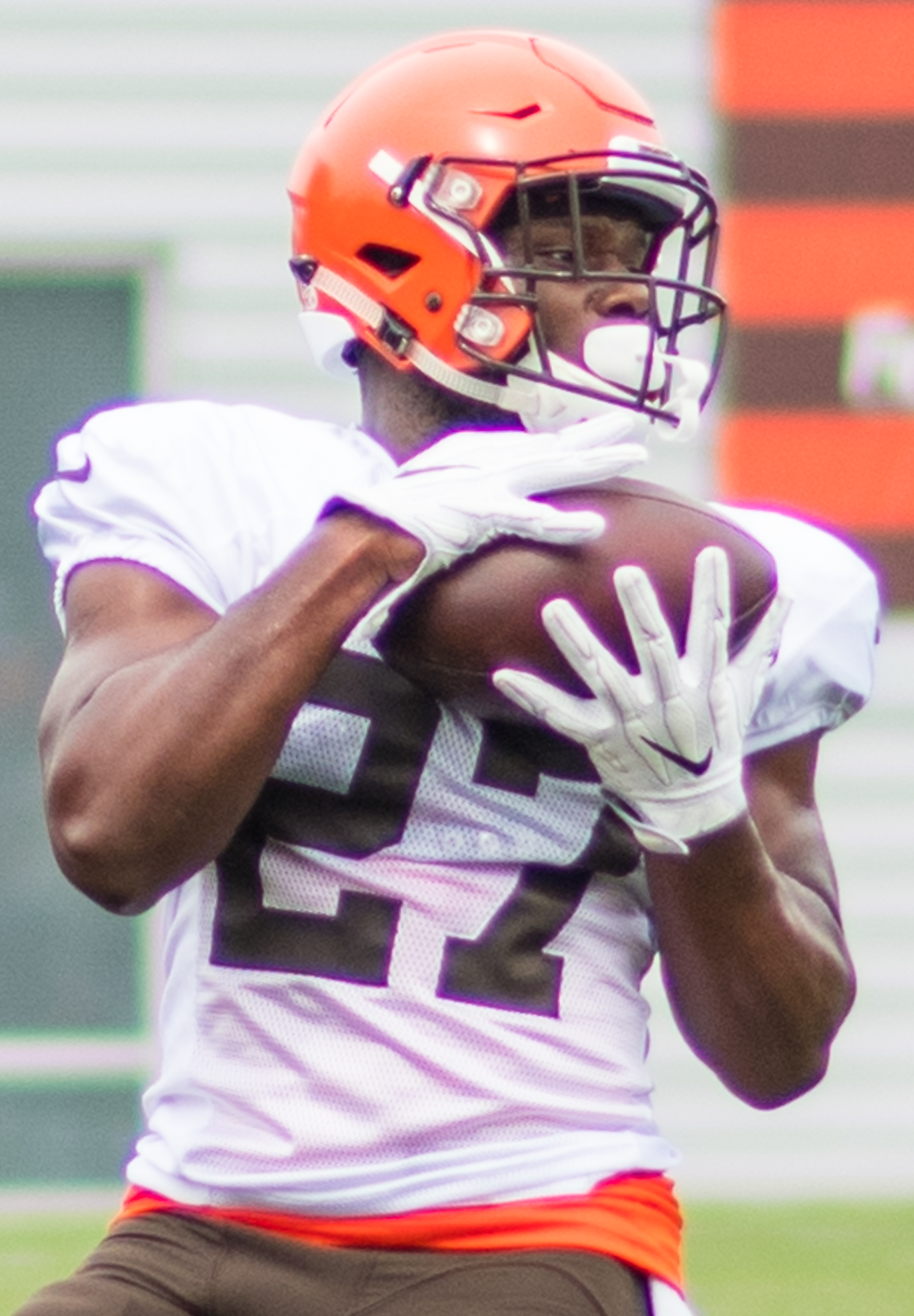 Cleveland Browns Training Camp